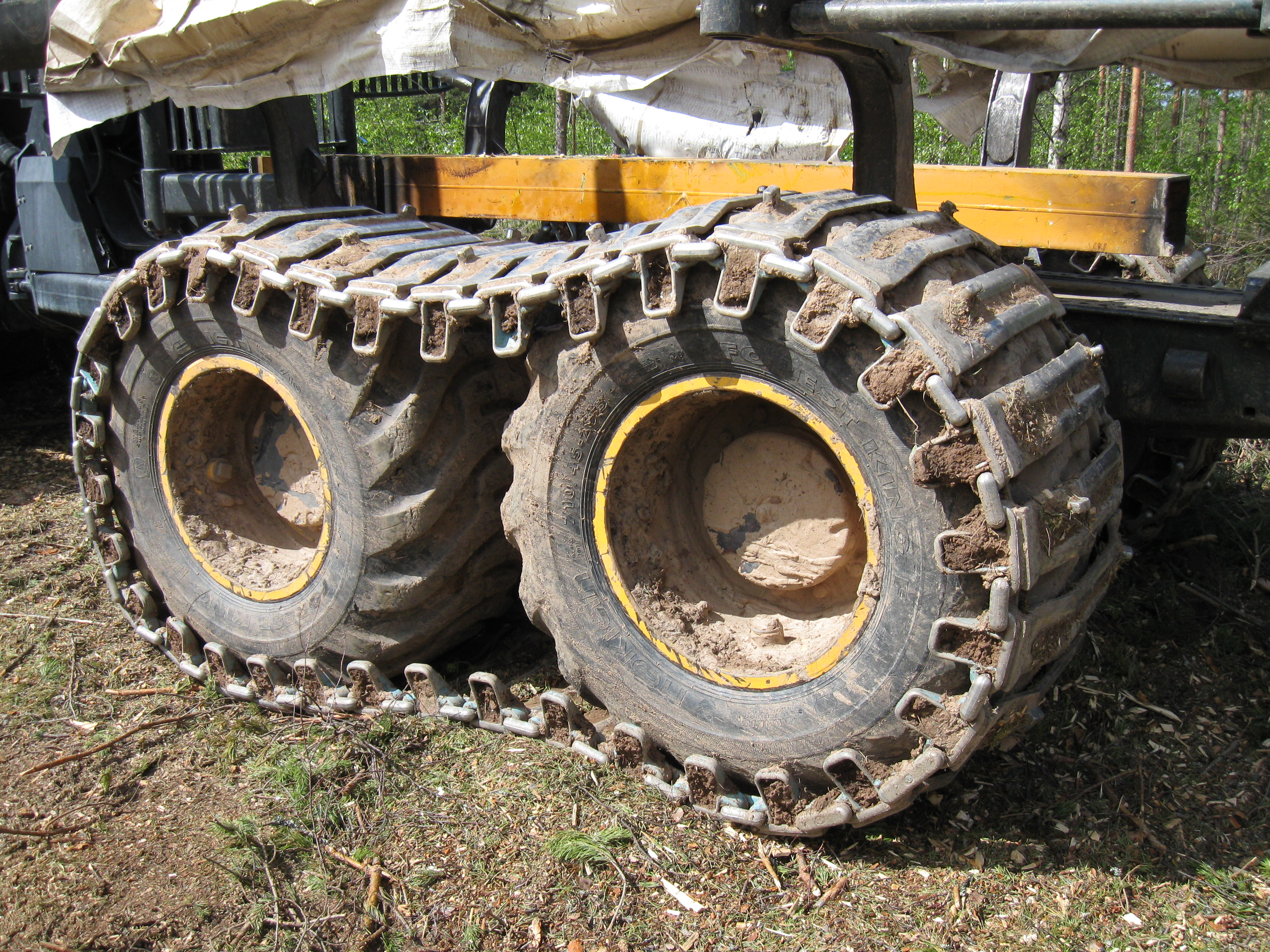 The rear wheels (with band tracks) of a Ponsse Buffalo forwarder.